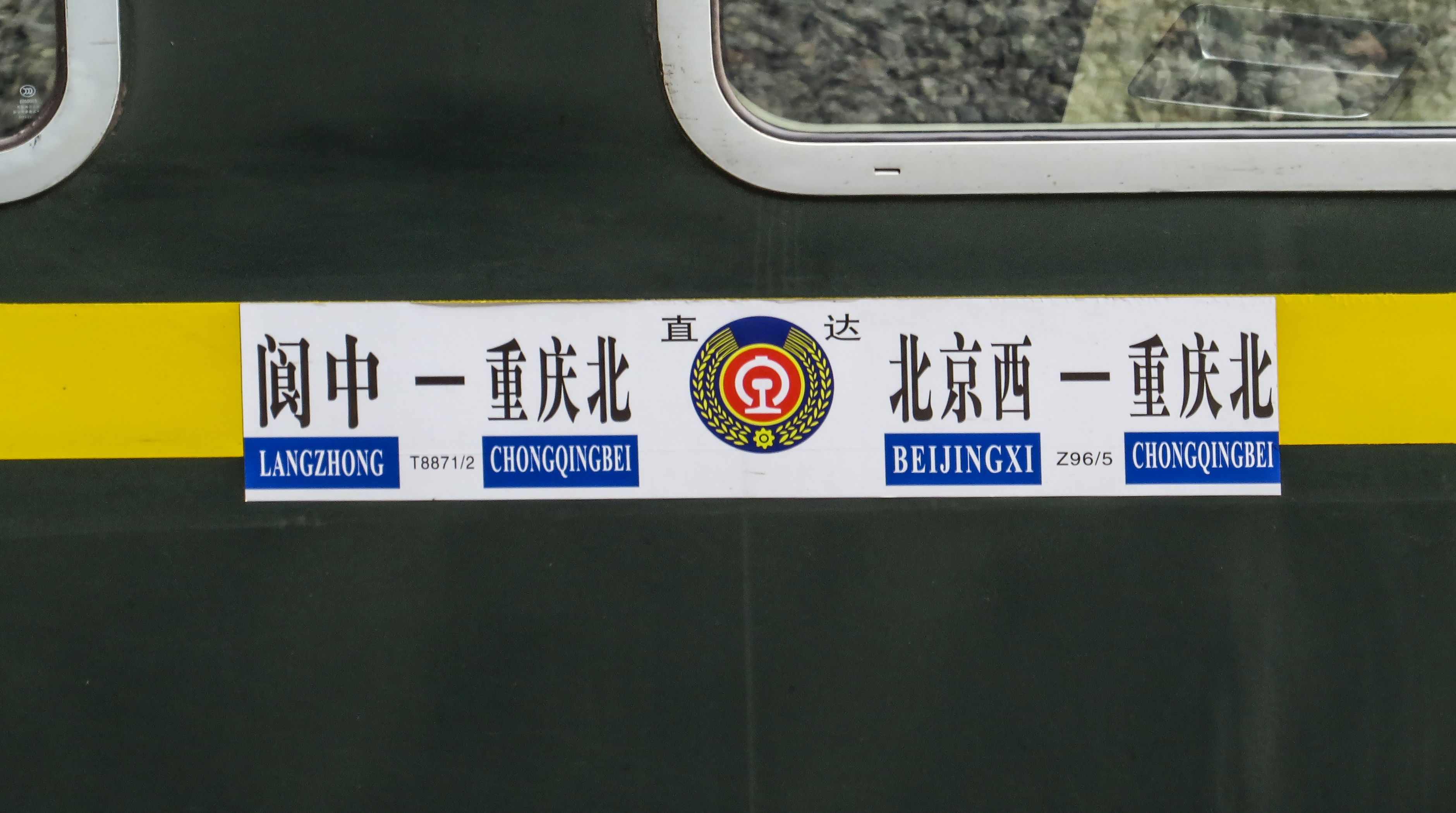 With T8871 to Langzhong.